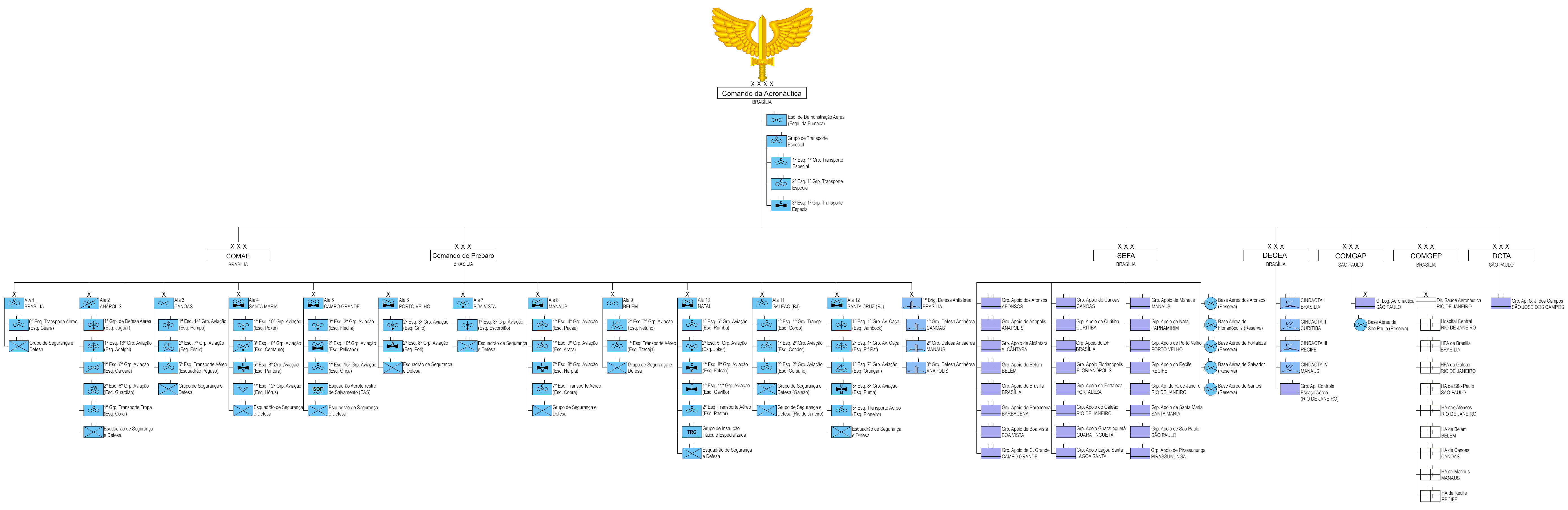 Structure of the Brazilian Brazilian Air Force